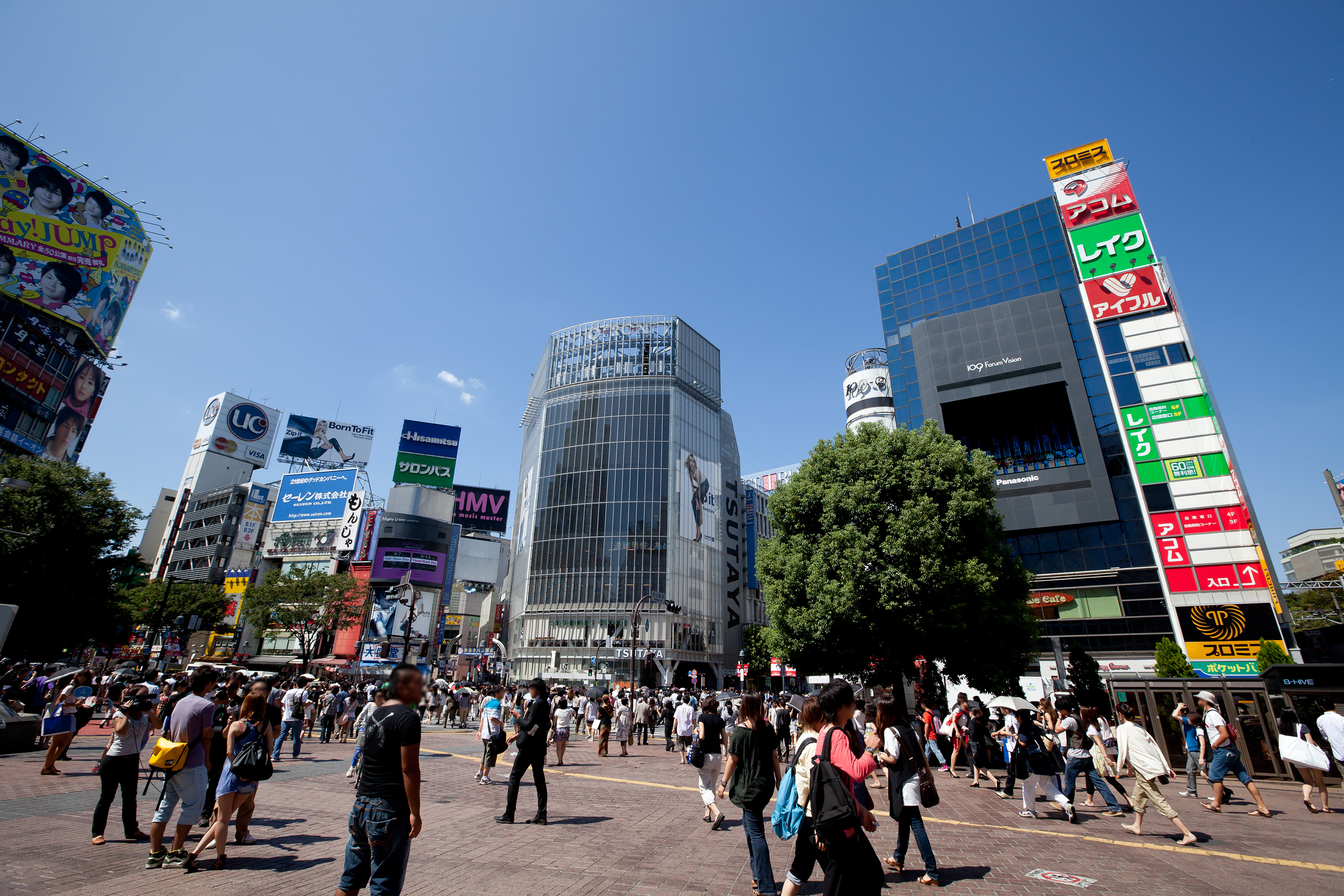 Front of the Shibuya Station